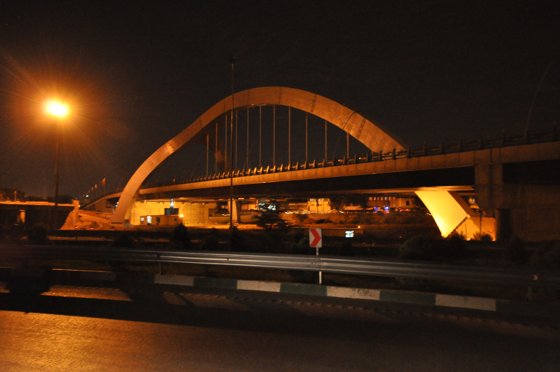 Javadieh Bridge in Tehran